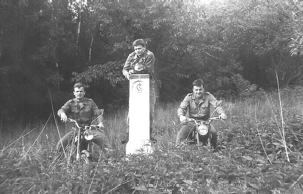 Border Protection Forces in Gierałcice